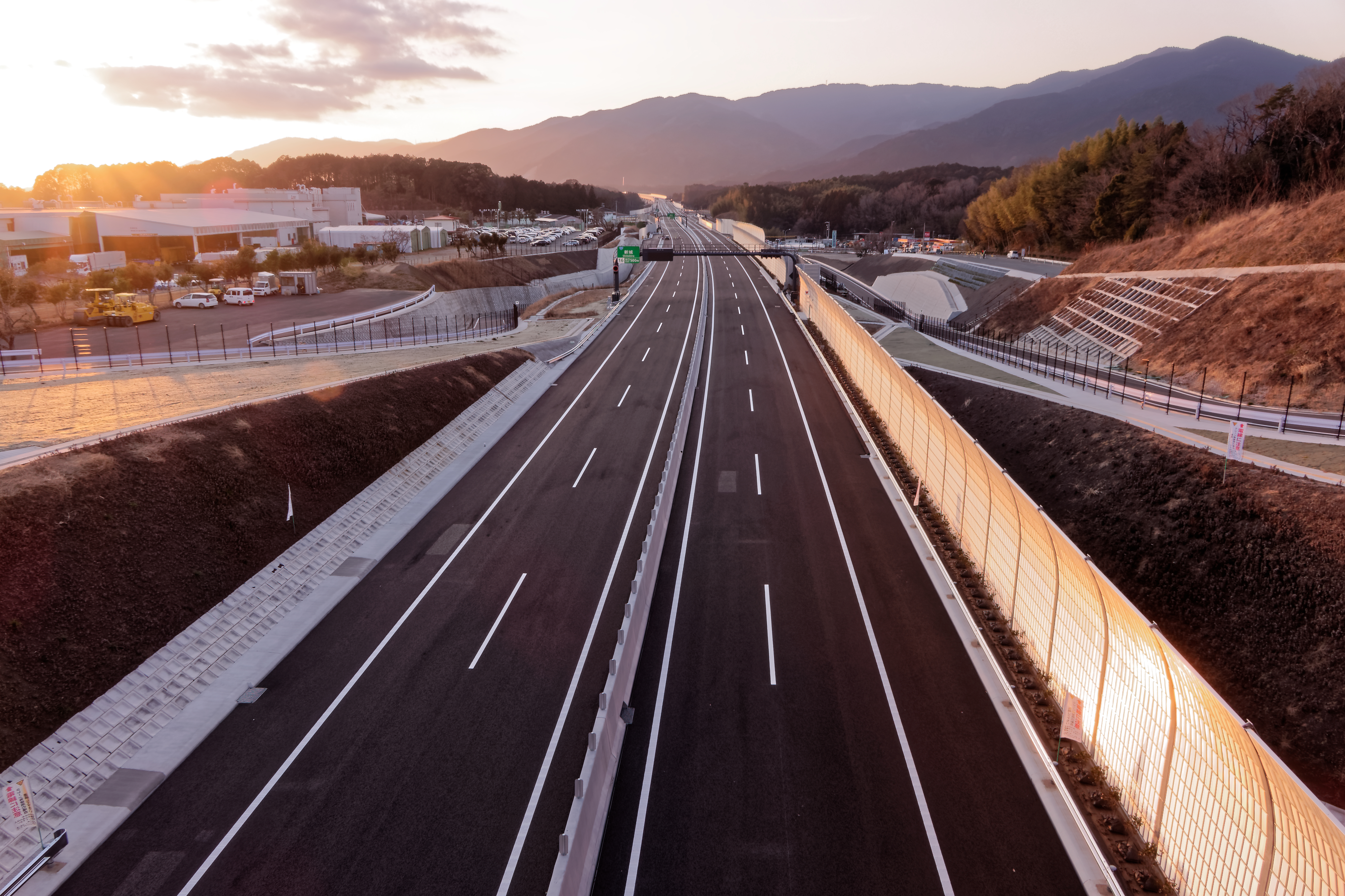 Shinshiro IC, SHIN-TOMEI EXPRESSWAY, Aichi Pref., Japan